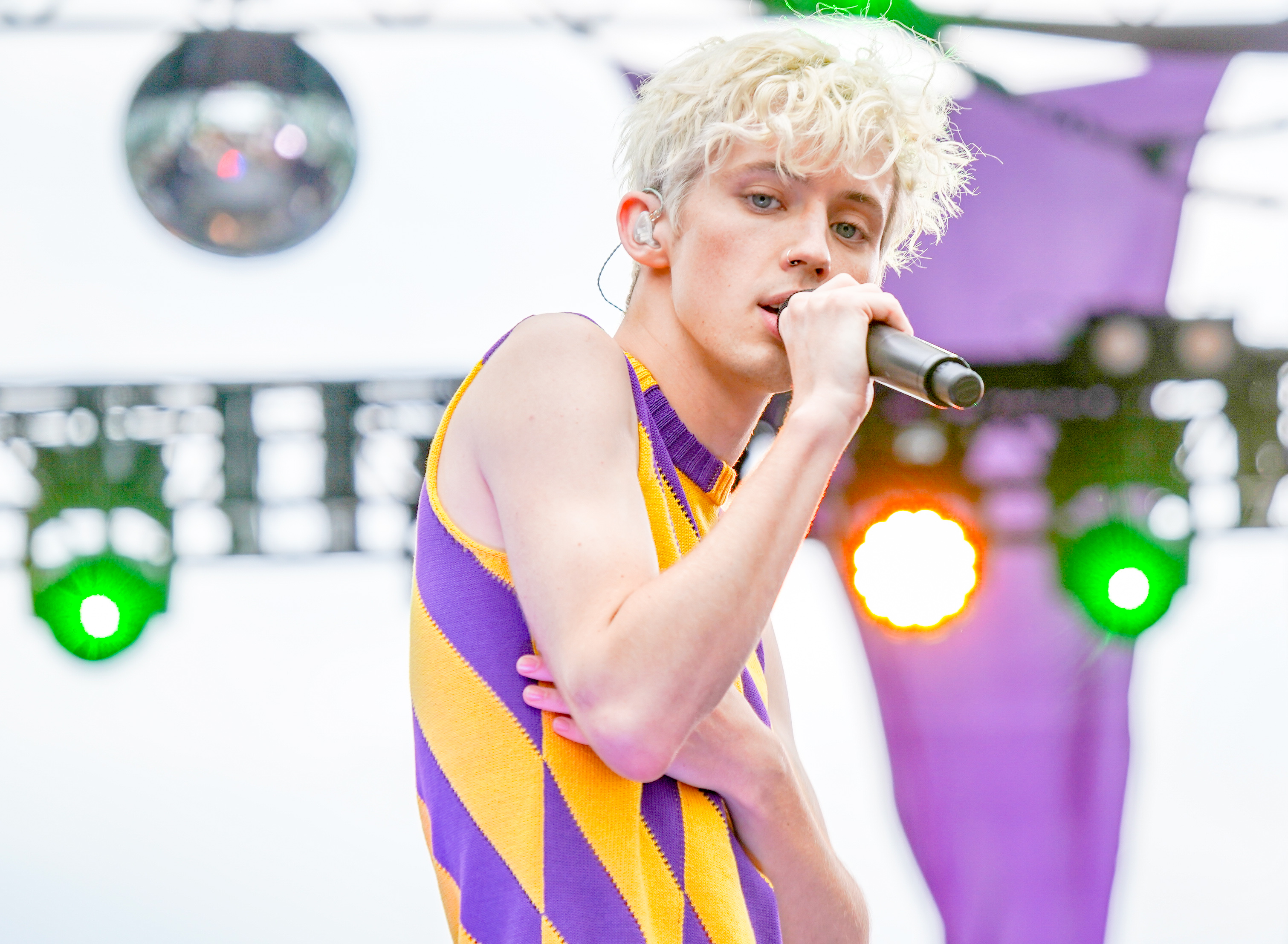 2018.06.10 Troye Sivan at Capital Pride w Sony A7III, Washington, DC USA 03478